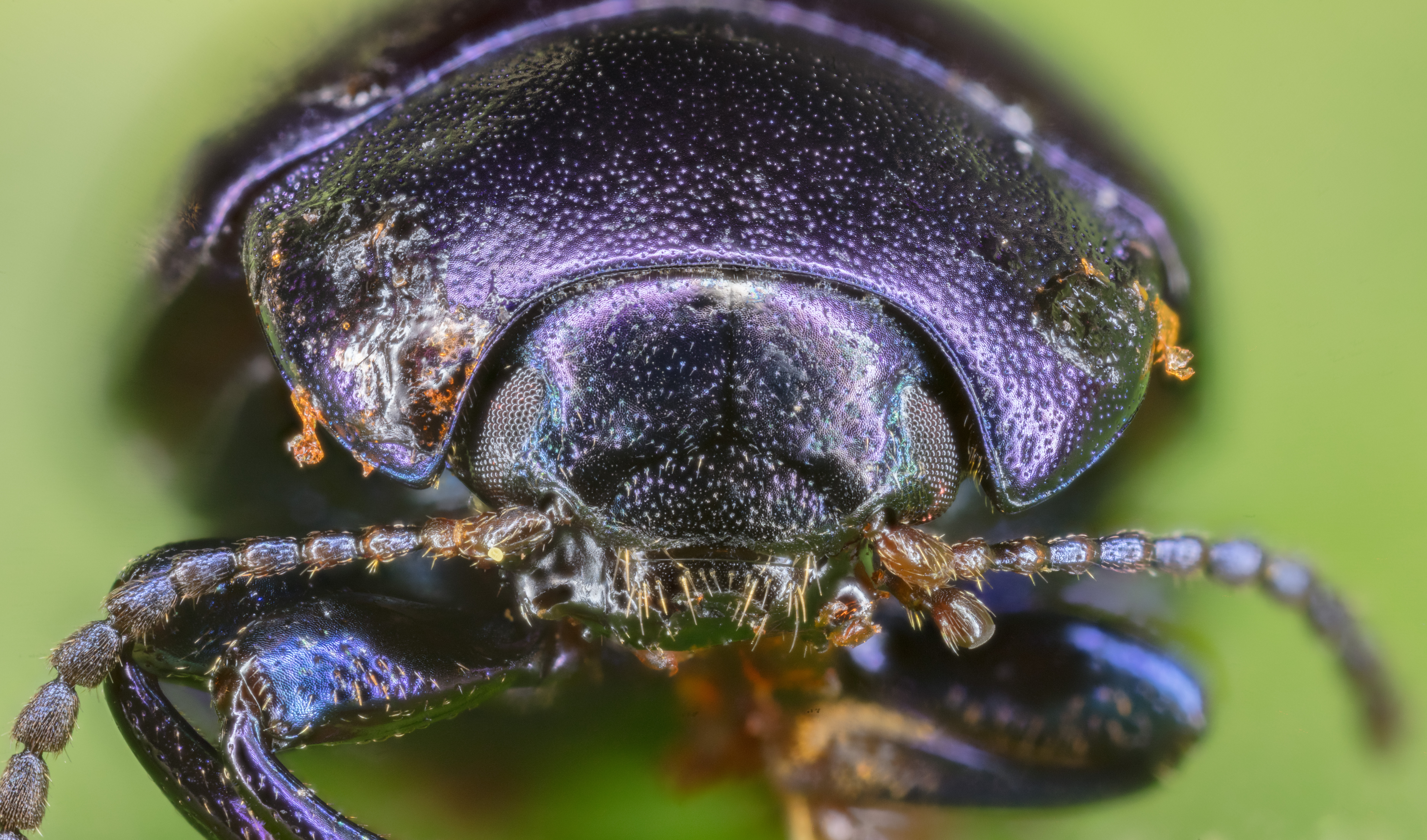 Bettle (Chrysolina sturmi), Hartelholz, Munich, Germany